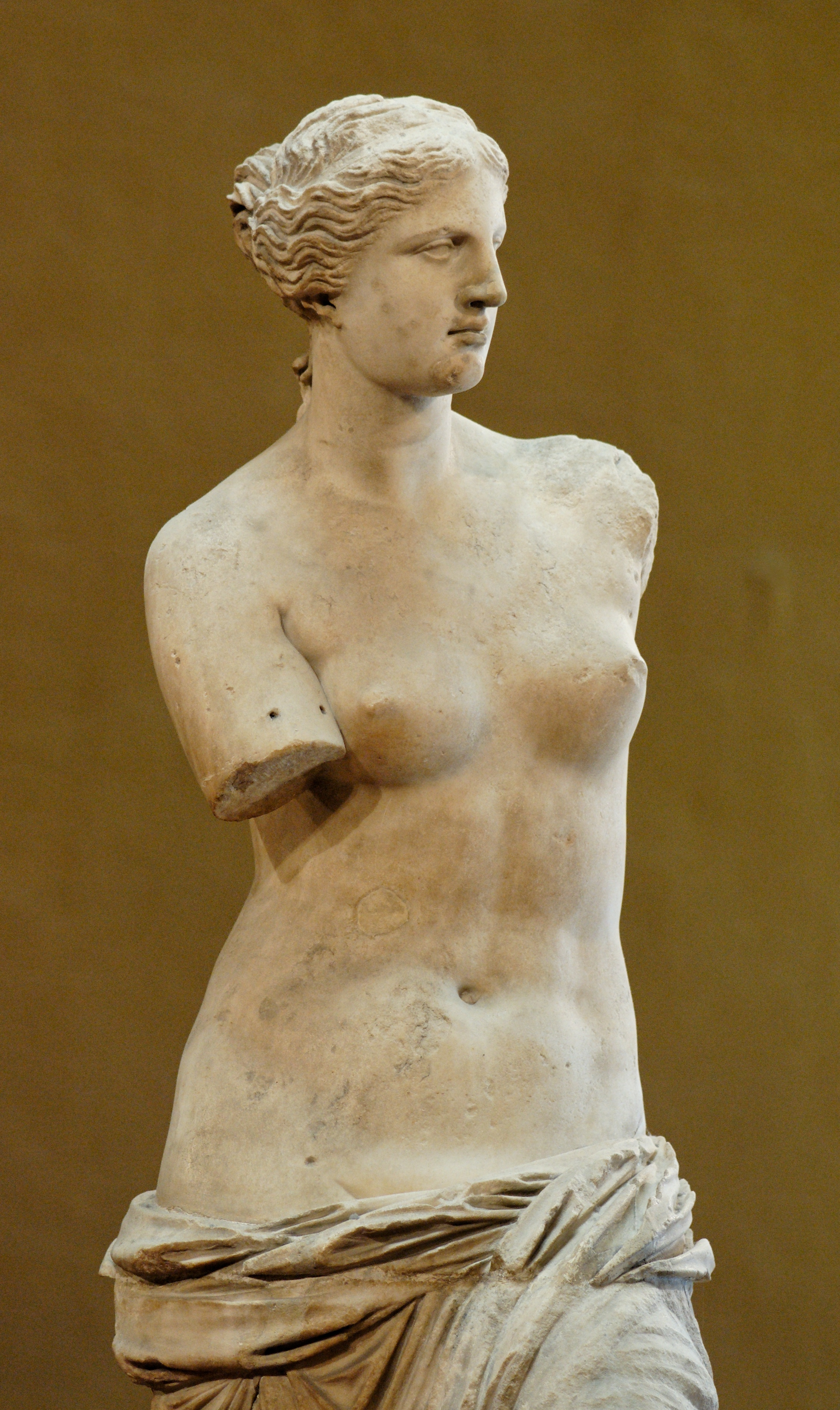 So-called “Venus de Milo” (Aphrodite from Melos). Parian marble, ca. 130-100 BC? Found in Melos in 1820.